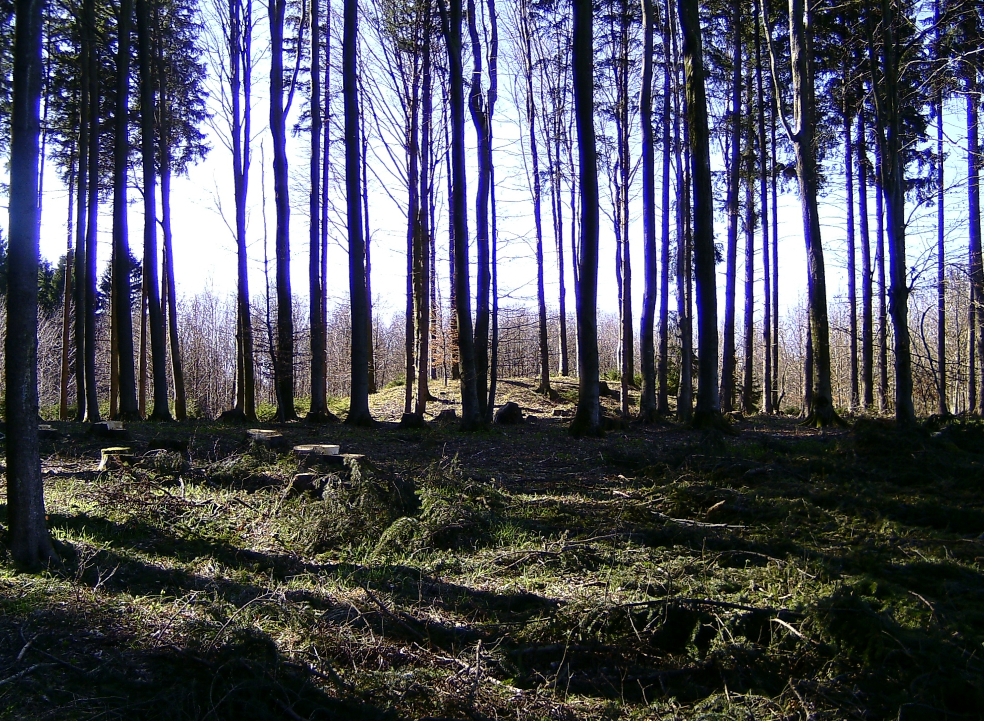 grave mound in bavaria